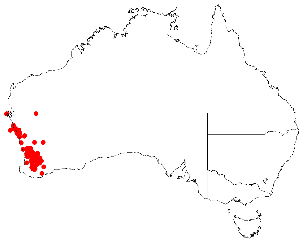 Bossiaea spinescens Occurrence data downloaded 11 September 2018 from AVH